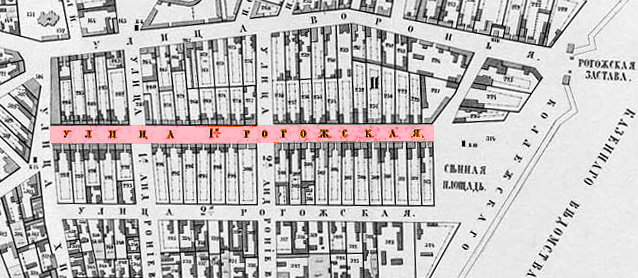 A fragment of 1853 Hotev's Atlas of Moscow. Shkolnaya street marked in red.